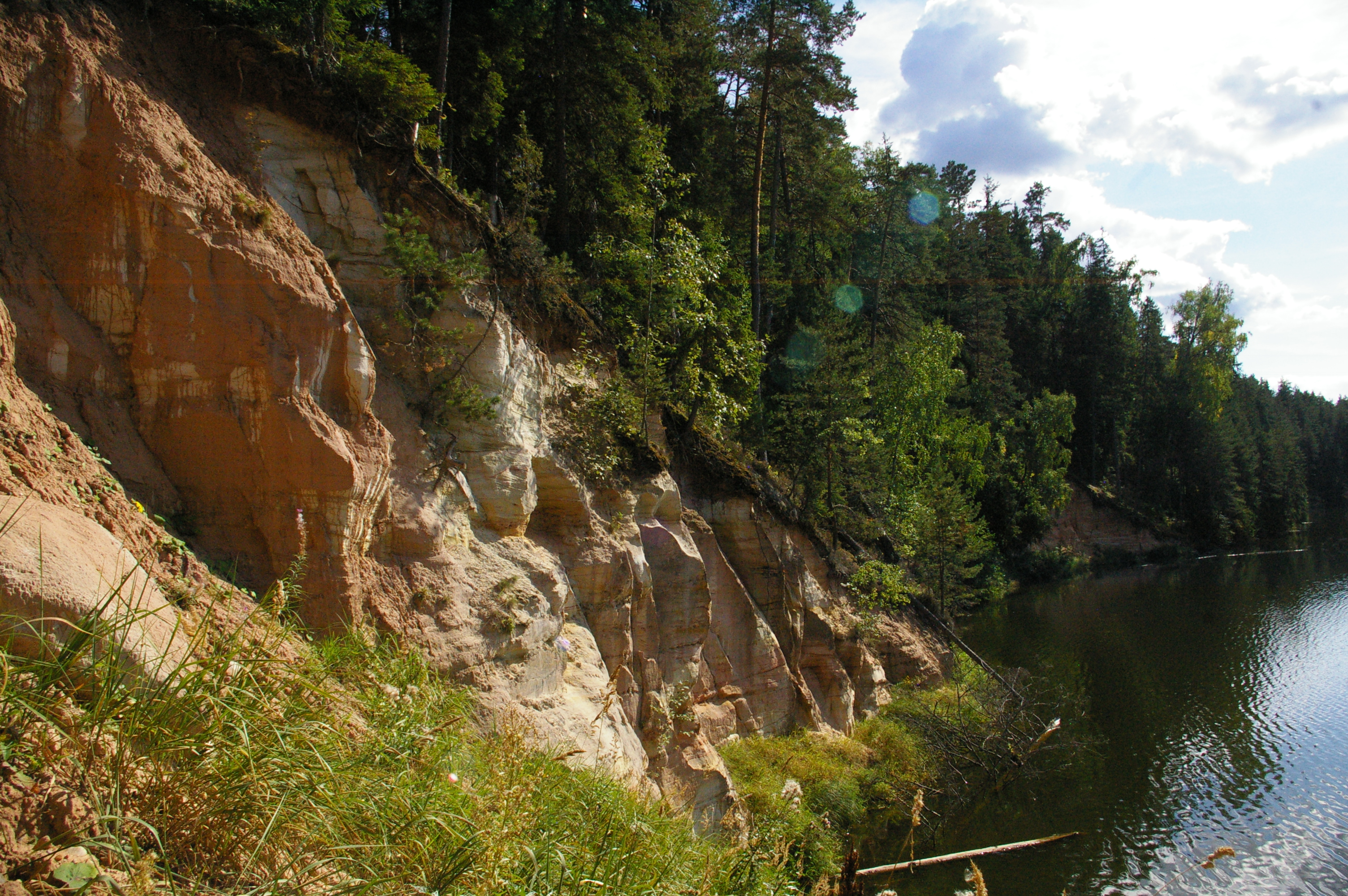 Kivipalu mägi